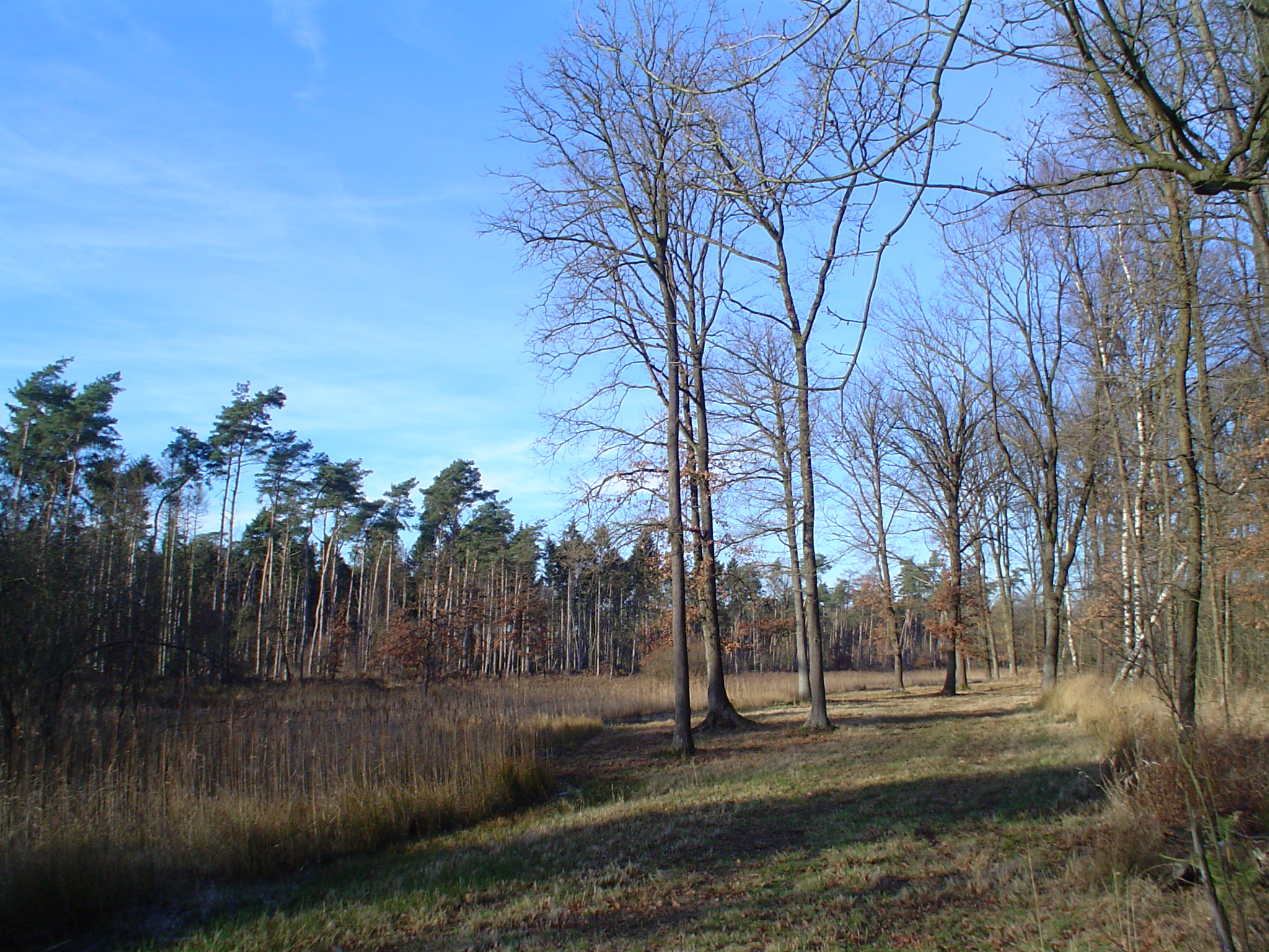 A pond in the Weerterbos, a nature area near Nederweert, Netherlands